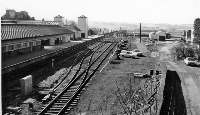 Berwick-upon-Tweed Station. View SW, towards Newcastle; ex-NER East Coast Main Line, Newcastle - Edinburgh. The Royal Border Bridge is visible in the centre of the scene and the remnant of Berwick Castle - most of which was destroyed when the station was built -- is on the right. (The towers on the station platforms are for the hydraulic luggage-lifts - a relative novelty).